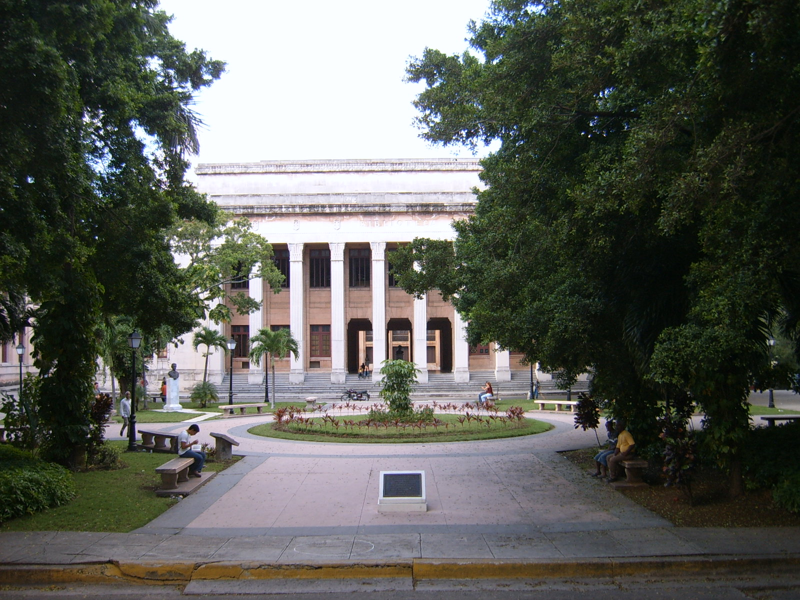 Garden at the University of Havana.